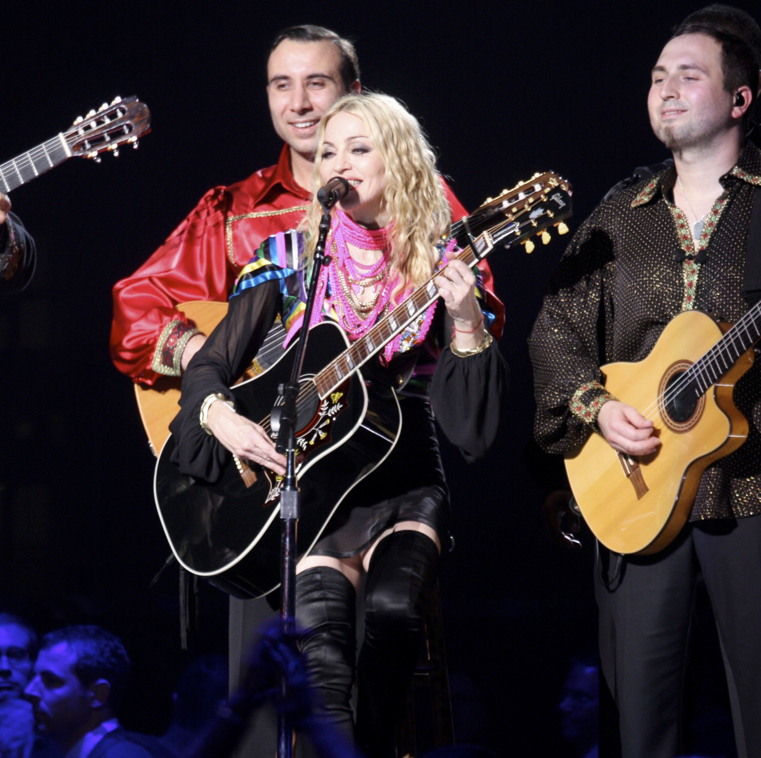 You Must Love Me, Sticky & Sweet Tour 2008